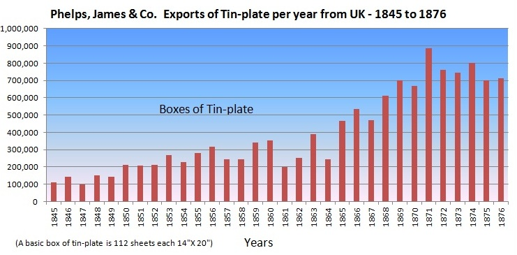 Statistics of tinplate exports managed by Phelps, James & Co 1845 to 1876. Information from Chronology of Tinplate Works of Great Britain by Edward Henry Brooke 1944